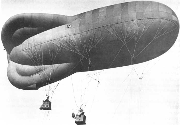 Type Caquot balloon